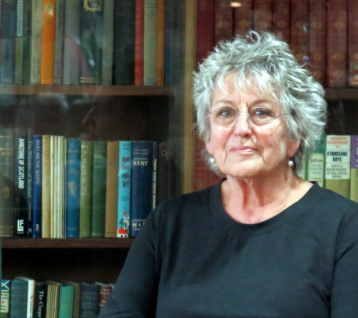 Germaine Greer at the University of Melbourne